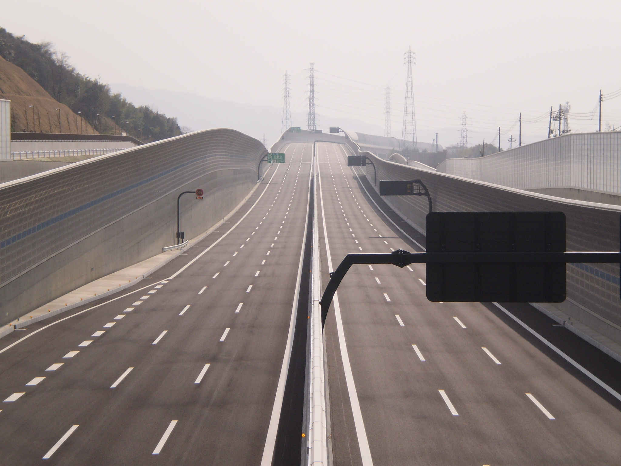 Daini keihan road. I took this image at Tsuda Hirakata City Osaka Pref., Japan.